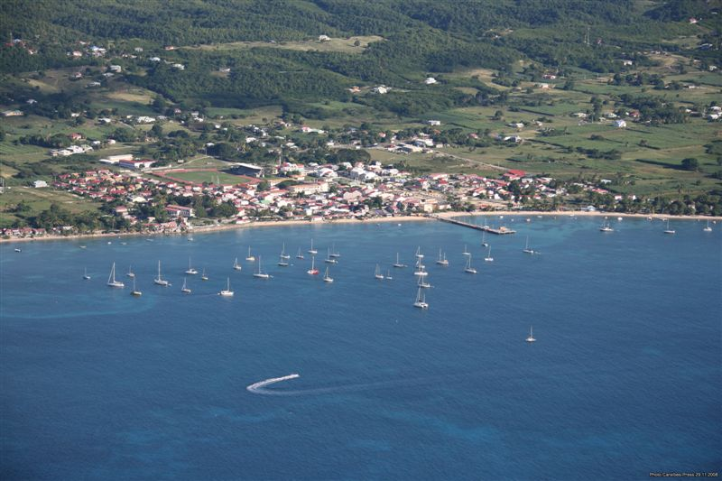 This is a picture from Saint-Louis de Marie-Galante